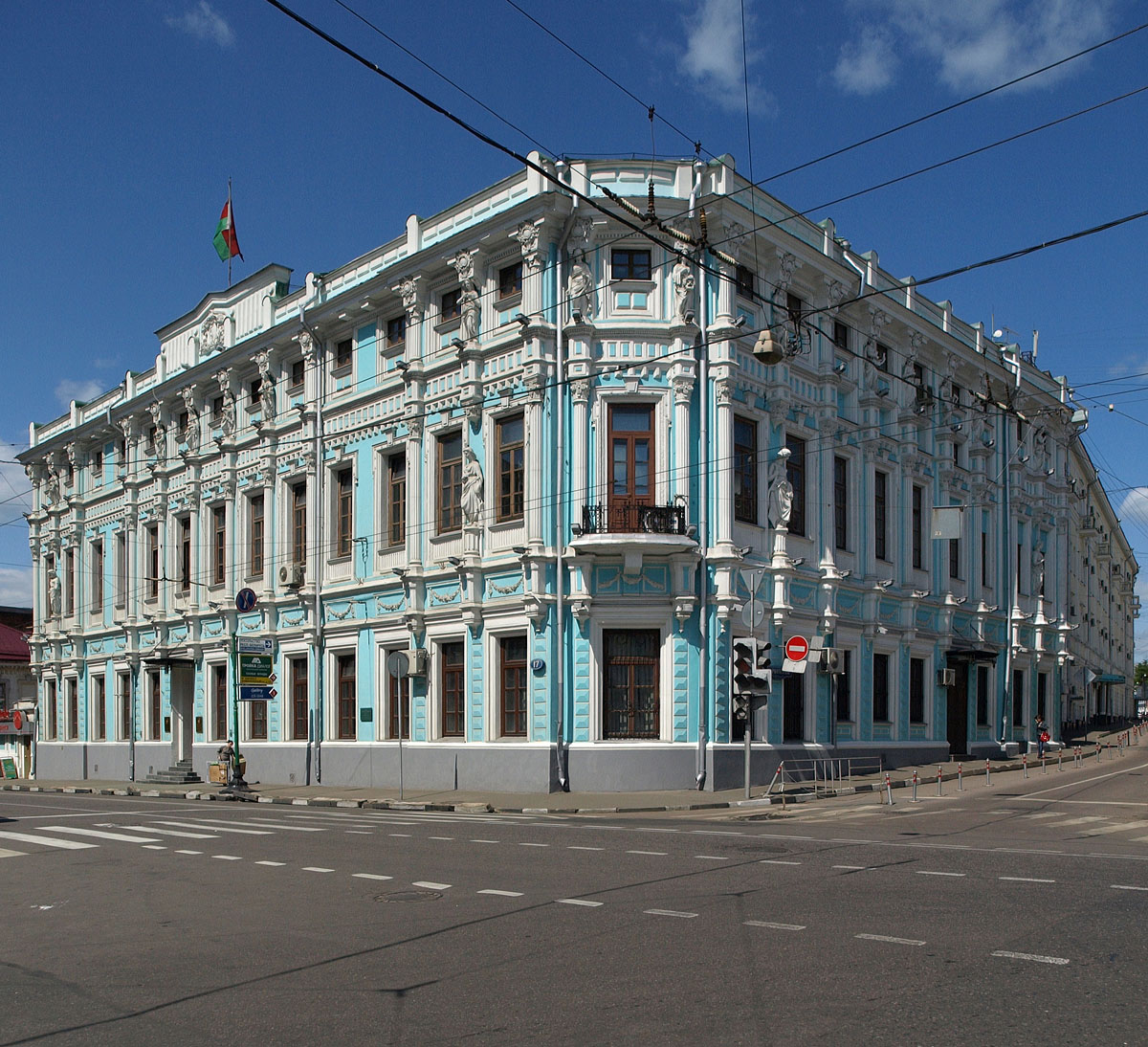 Rumyantsev House in Maroseika Street, Moscow. Embassy of Belarus